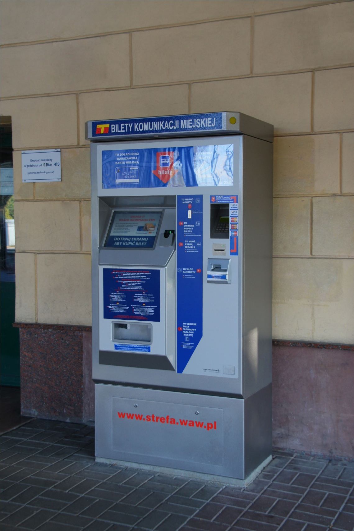 Ticket machines on the railway station Otwock (Poland)